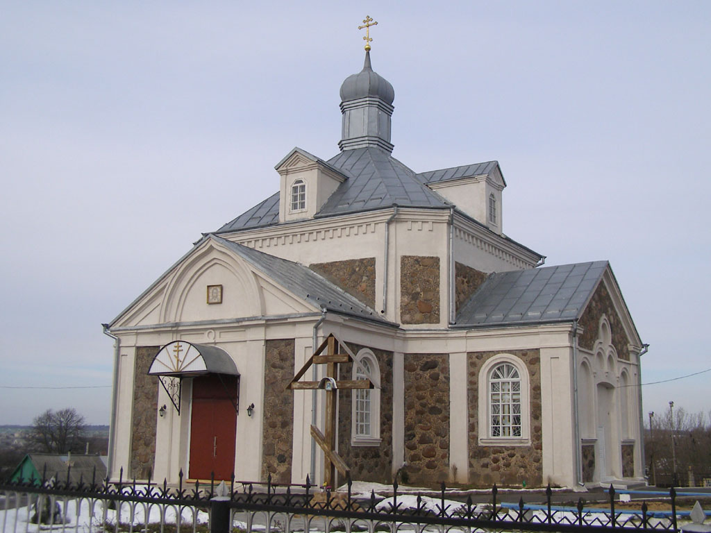 Ascension Church (1866) of Kapyl in Belarus